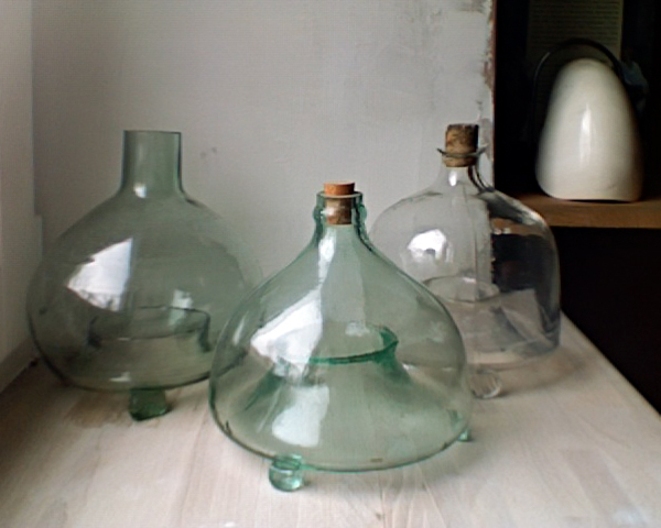 3 fly bottles